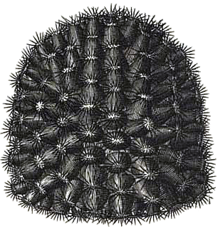 Lectotyp of Mammillaria